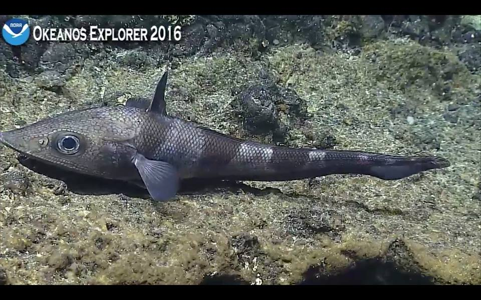 Coelorinchus tokiensis observed off Hawaii by the NOAA Okeanos Explorer mission in 2016 (ID Randal Singer).